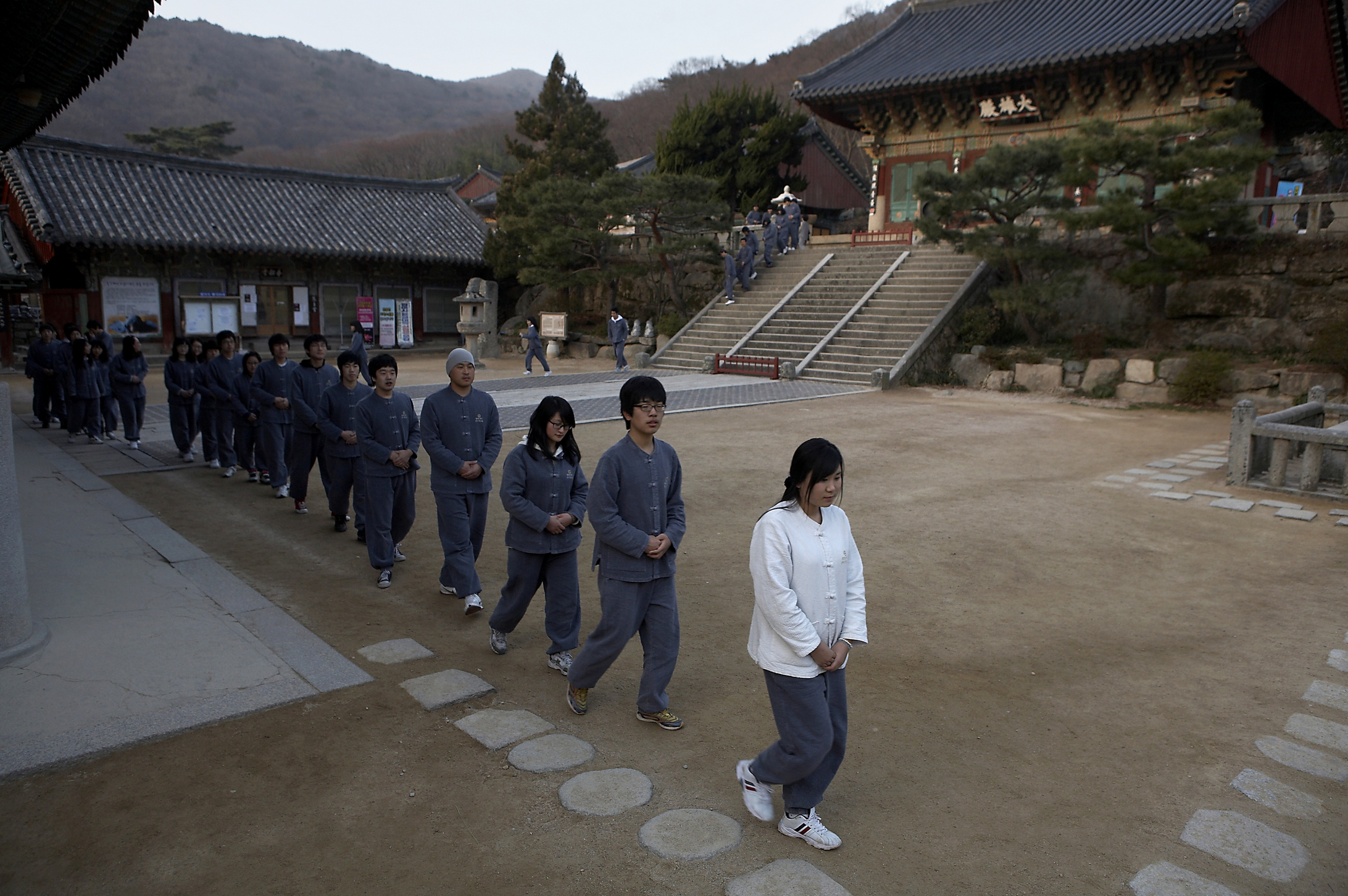 Beomeo temple templestay 2